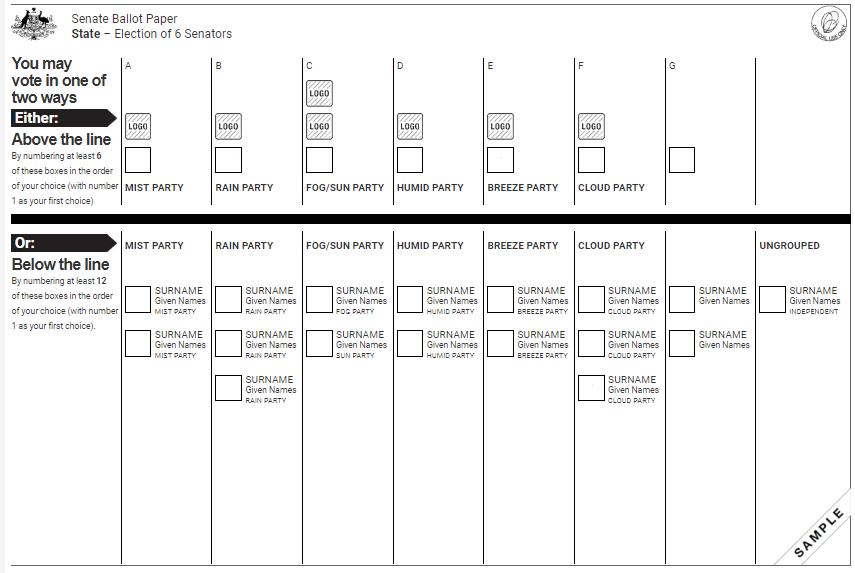 Australian Senate sample ballot paper